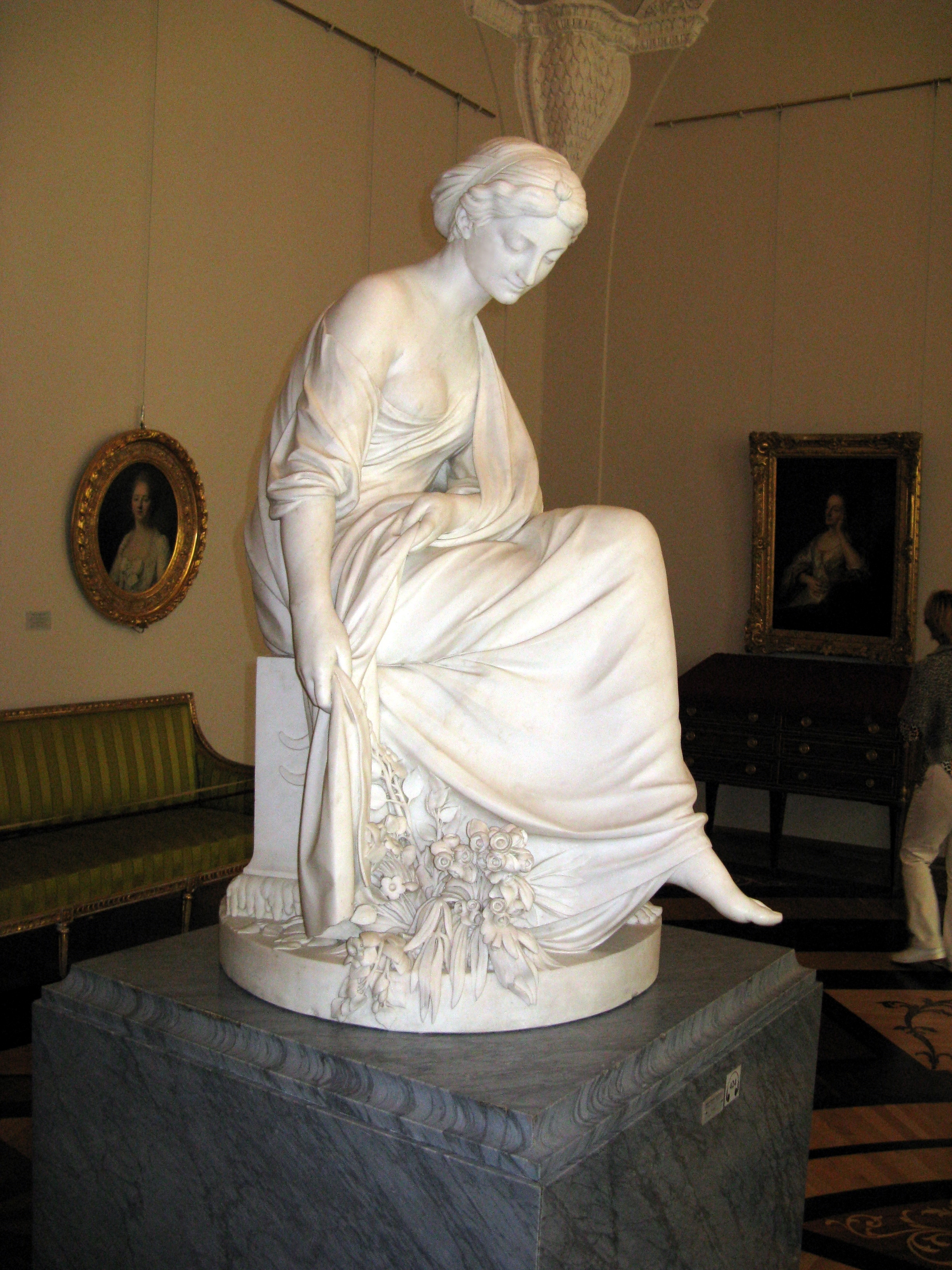 Winter by Étienne Maurice Falconet at the Hermitage.